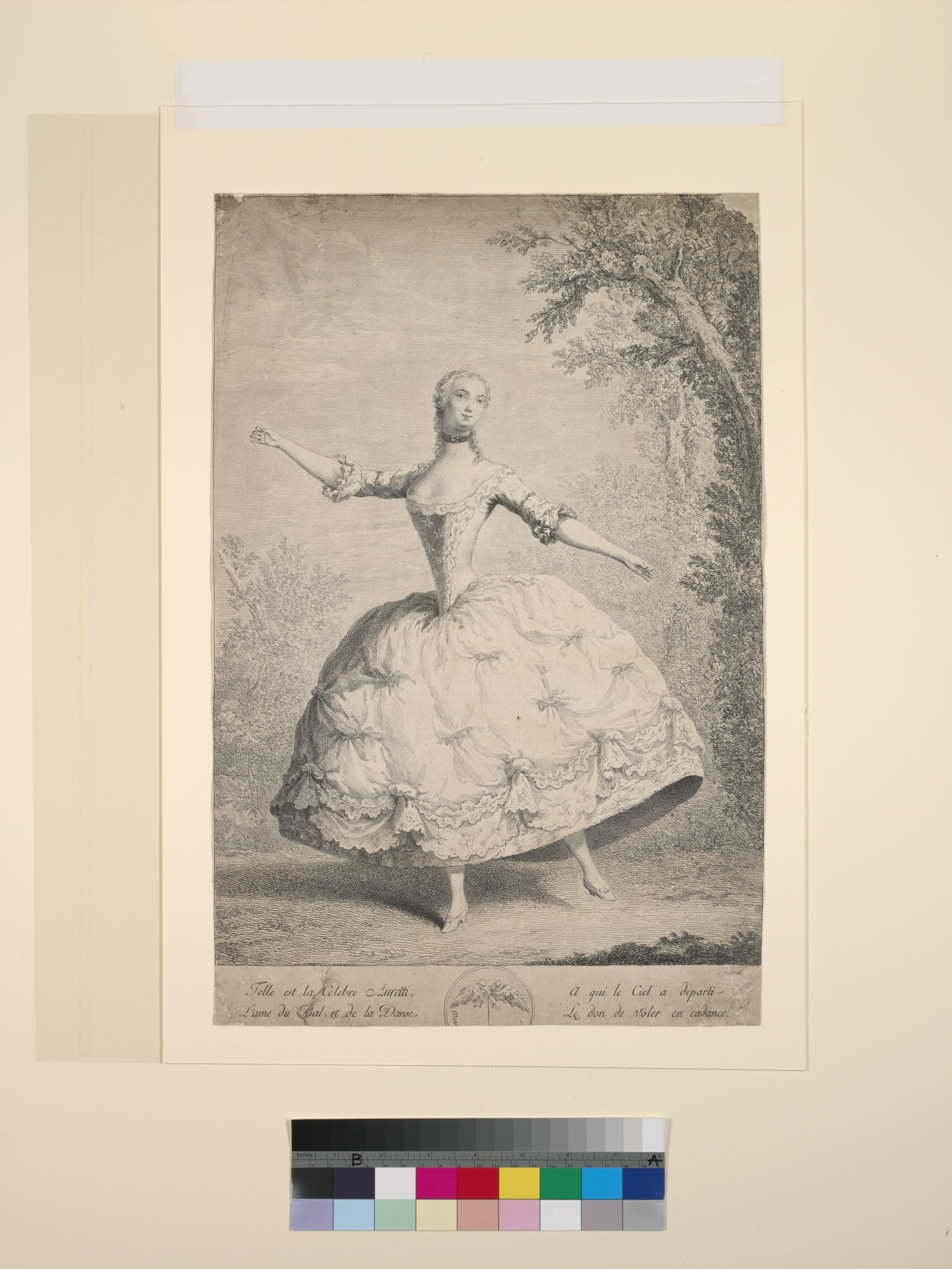 Legend: Telle est la célèbre Auretti, / L'ame du Bal, et de la Danse, / A qui le Ciel a departi / Le don de voler en cadance. In this undated print, Auretti appears to be younger than the subject of Scotin's 1745 London print. Depicts Anne (or possibly Janneton) Auretti, full length to slight left, head inclined to slight right, arms outstretched, index fingers and thumbs touching, left leg extended to side. Wearing neckband, paniered décollété ball gown, heeled shoes. An outdoor setting, trees in background. Cf. Winter, Marian Hannah. The Pre-Romantic Ballet, London, 1974, p. 128. Reproduction. Poor condition: mutilated, cropped.